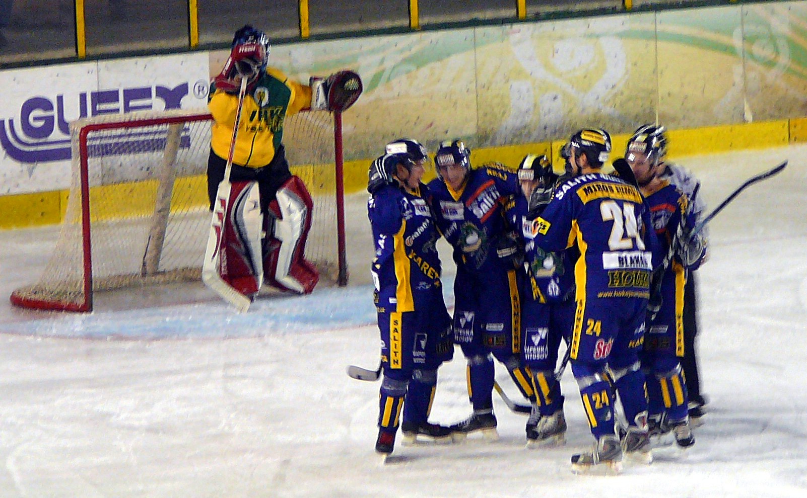 VHK Vsetín v Salith Šumperk -10-5-3-2◄►+2+3+5+10